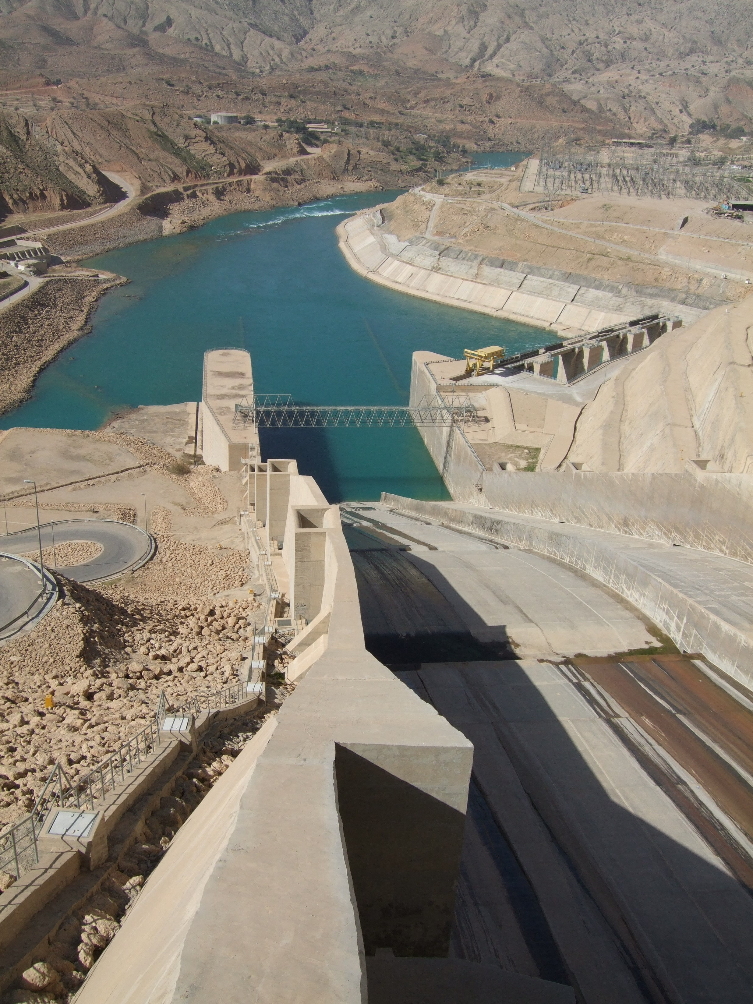 Masdsched-Soleyman - spillway